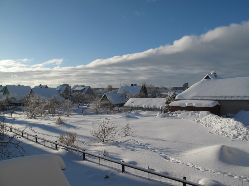 Footsteps through the snow, with sun and shadows in Telsiai, Lithuania.